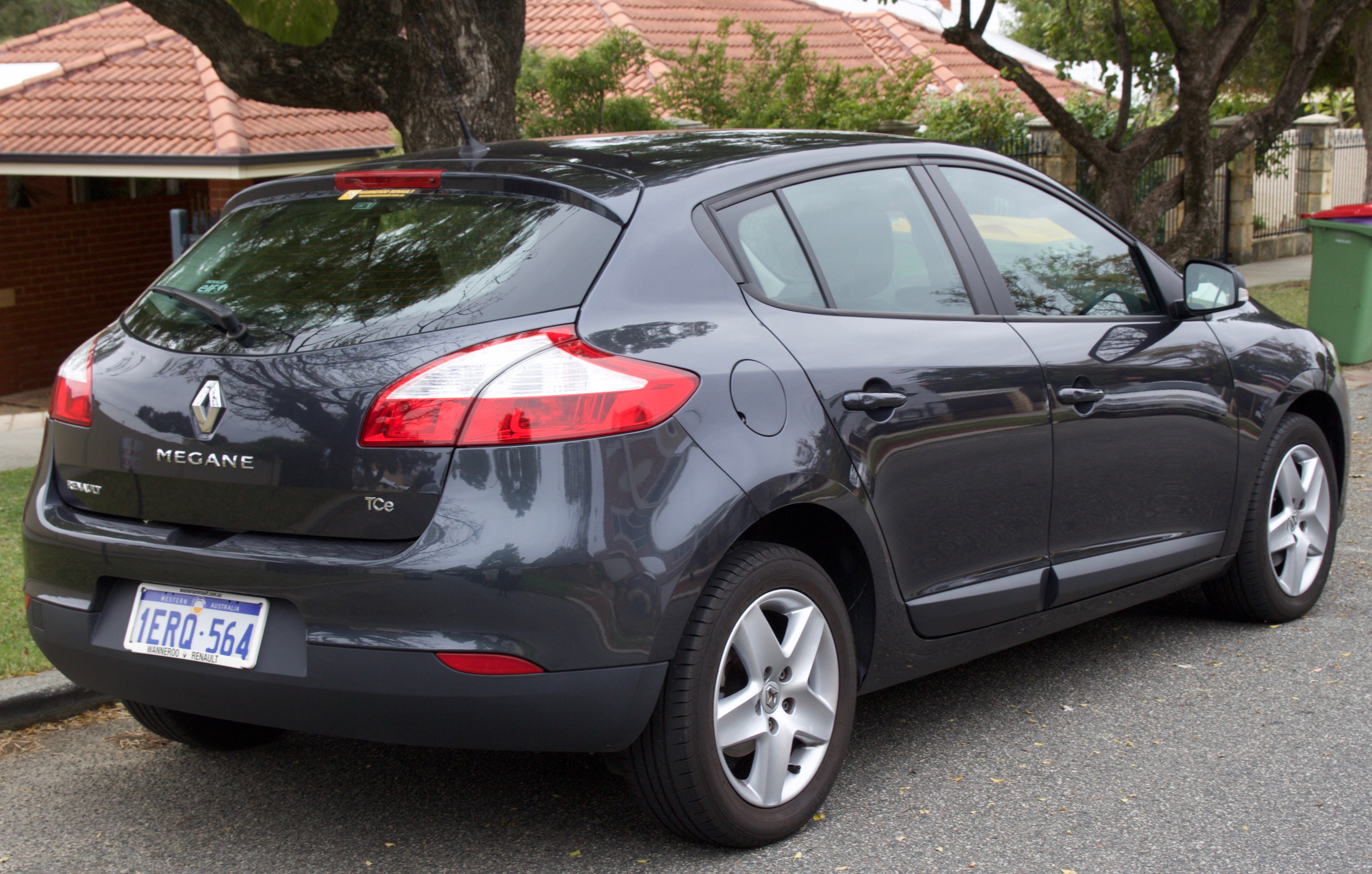 2014 Renault Mégane (B95) Authentique TCe 130 5-door hatchback. Photographed in West Leederville, Western Australia Australia.